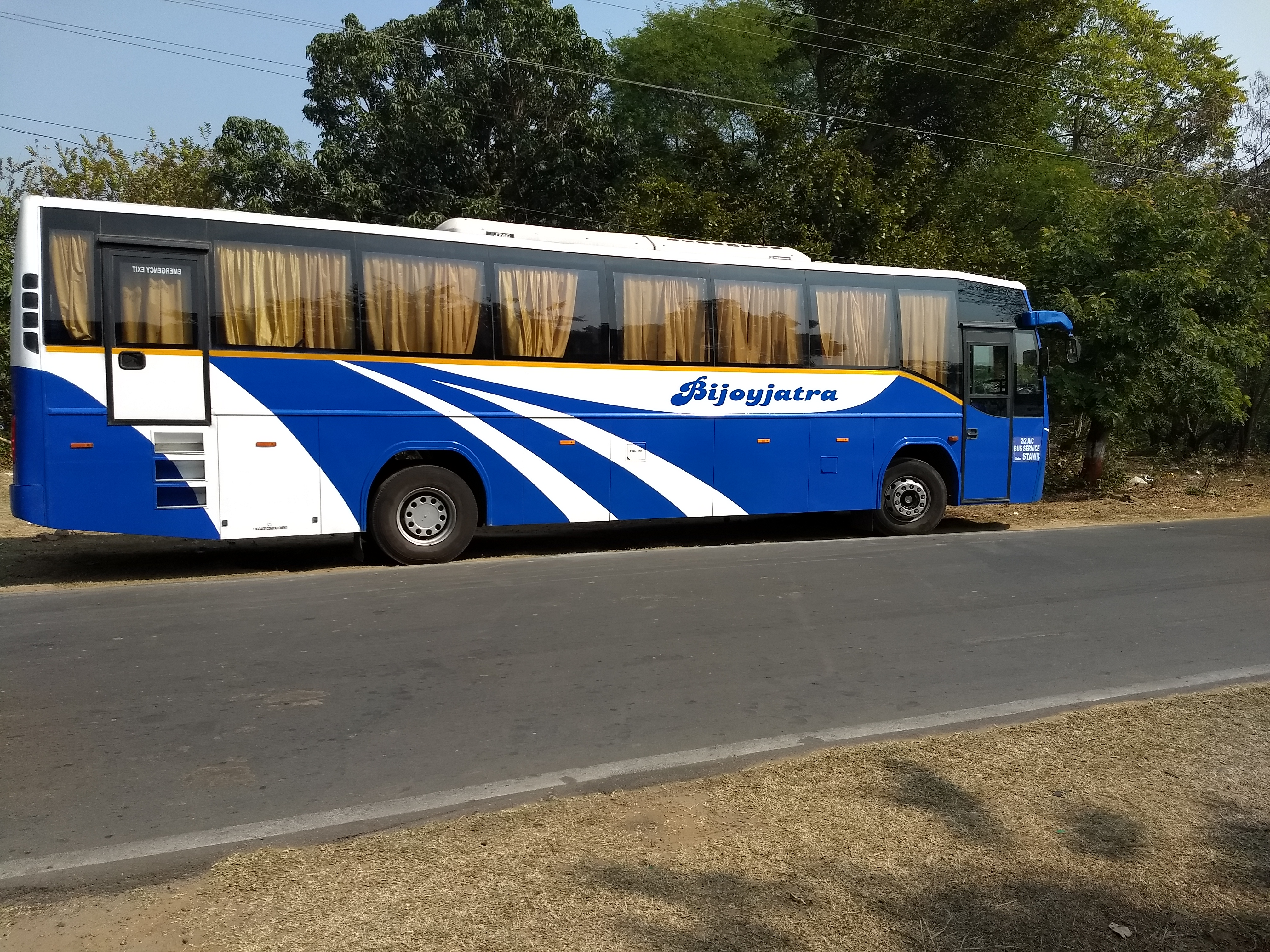 Along with trains Buses are one of the most used transport systems here